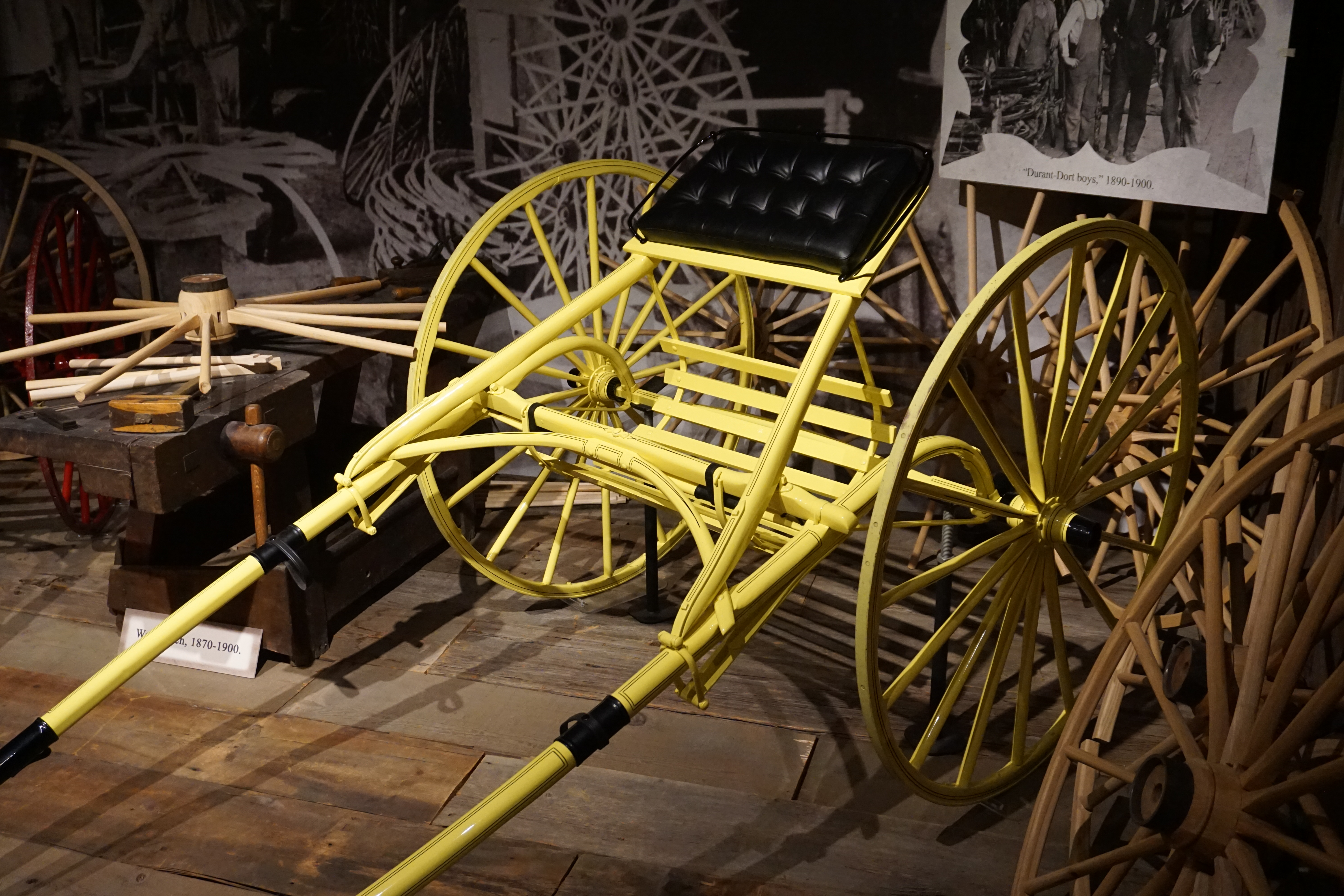 A circa 1886-1893 Flint Road Cart Company road cart at the Sloan Museum in Flint, Michigan (United States).